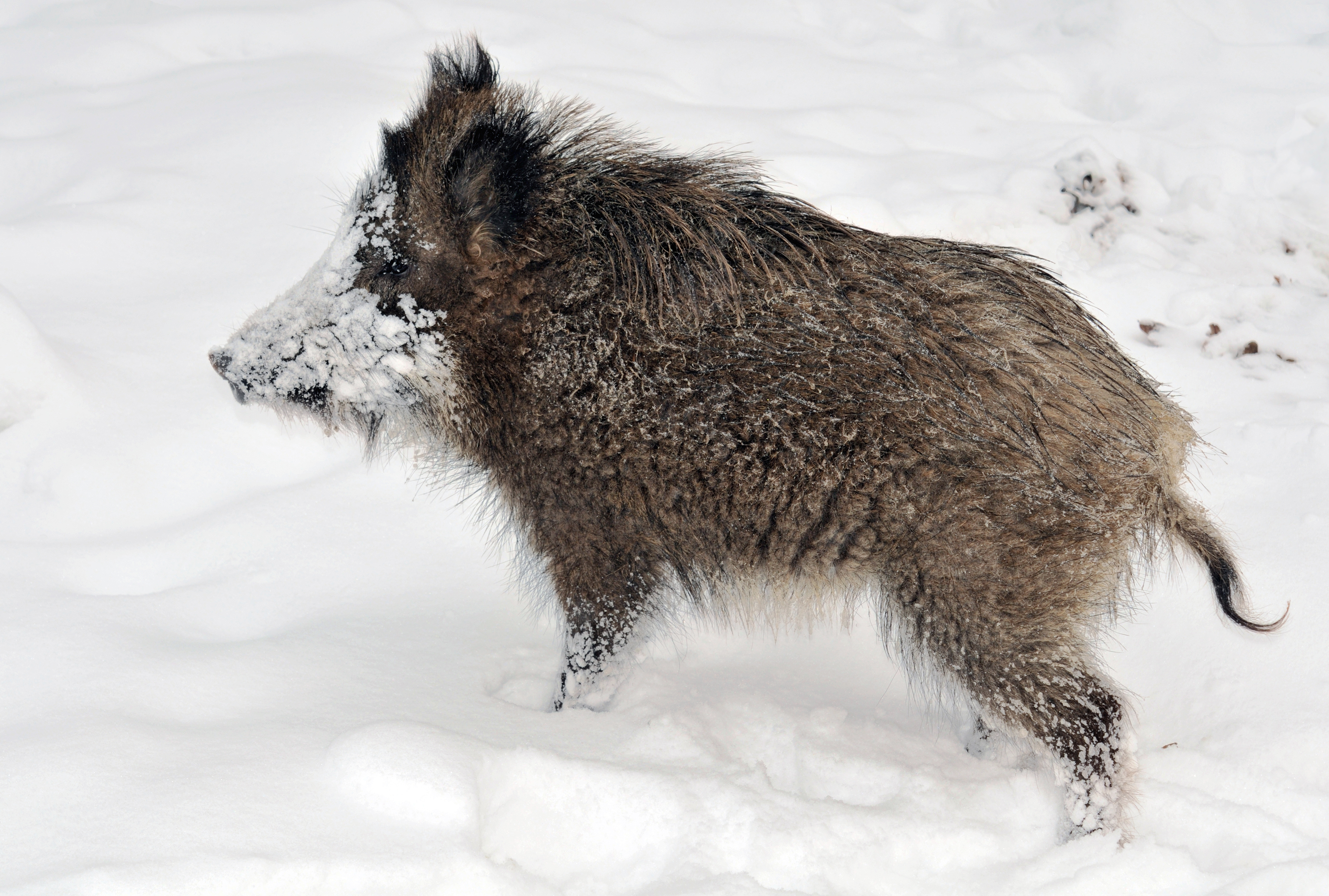 Snowi, a young wild boar in the Wisentgehege Springe game park near Springe, Hanover, Germany